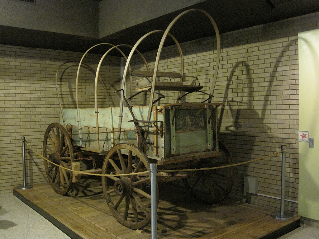 Arkansas State University Museum